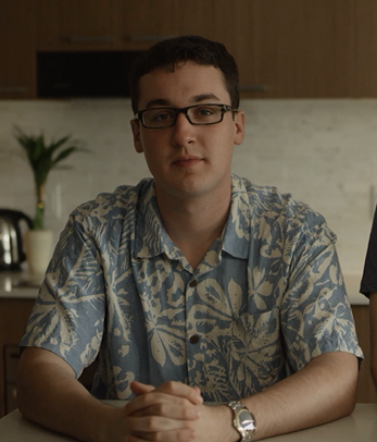 Classified The Edward Snowden Story Video Still